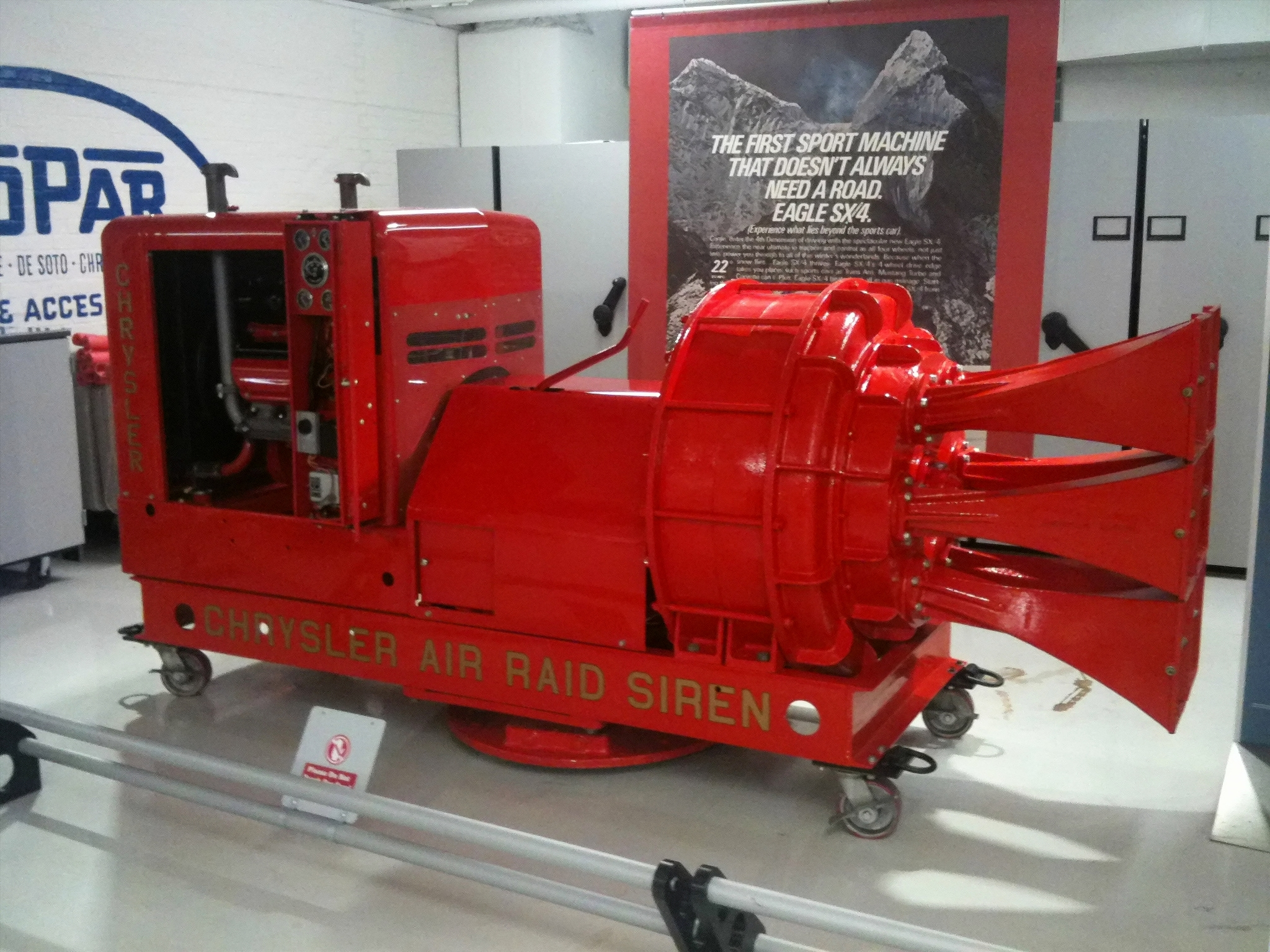 Chrysler Air Raid Siren as seen in the Walter P Chrysler Museum in Auburn Hills, Michigan.